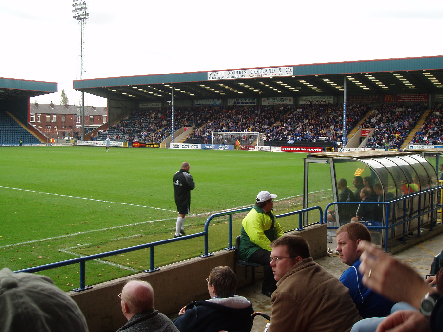 Self-made photograph of the WMG stand (from the main stand).